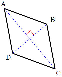 Rhombus.